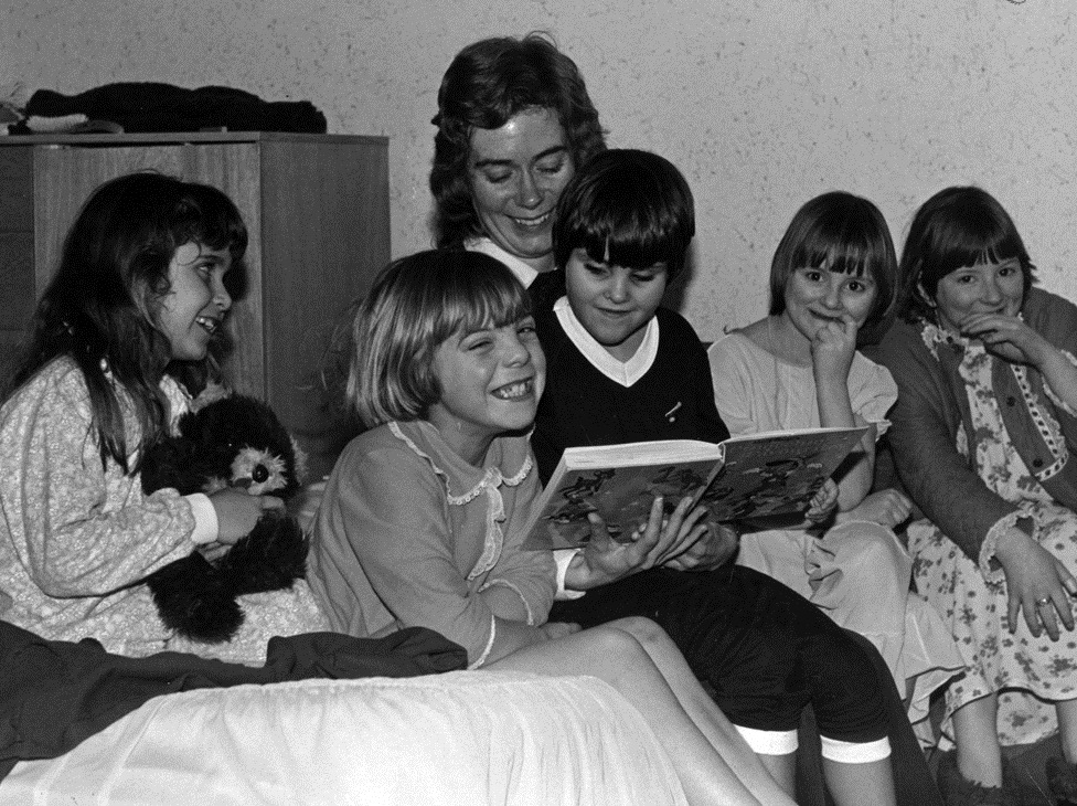 Enjoying a bedtime story at the Royal Victoria School for the Blind, Newcastle upon Tyne, 1982 (TWAM ref. E.NC18/24). Tyne & Wear Archives is proud to present a series of images relating to the Royal Victoria School for the Blind, Newcastle upon Tyne. The set has been produced to celebrate UK Disability History Month 2014. The Royal Victoria School for the Blind (then known as the Royal Victoria Asylum) was established from a fund to mark the coronation of Queen Victoria in 1837 and was originally located at the Spital before moving to premises in Northumberland Street. In the 1890s the name was changed to the Royal Victoria School, and in 1895 the school moved to the former house of Dr Hodgkinson in Benwell Dene. Pupils came from throughout the North of England. As a result of legislation to integrate special groups within the mainstream education system the school closed in 1985. (Copyright) Reproduced with kind permission of the Royal Victoria Trust for the Blind. We're happy for you to share these digital images within the spirit of The Commons. Please cite 'Tyne & Wear Archives & Museums' when reusing. Certain restrictions on high quality reproductions and commercial use of the original physical version apply though; if you're unsure please